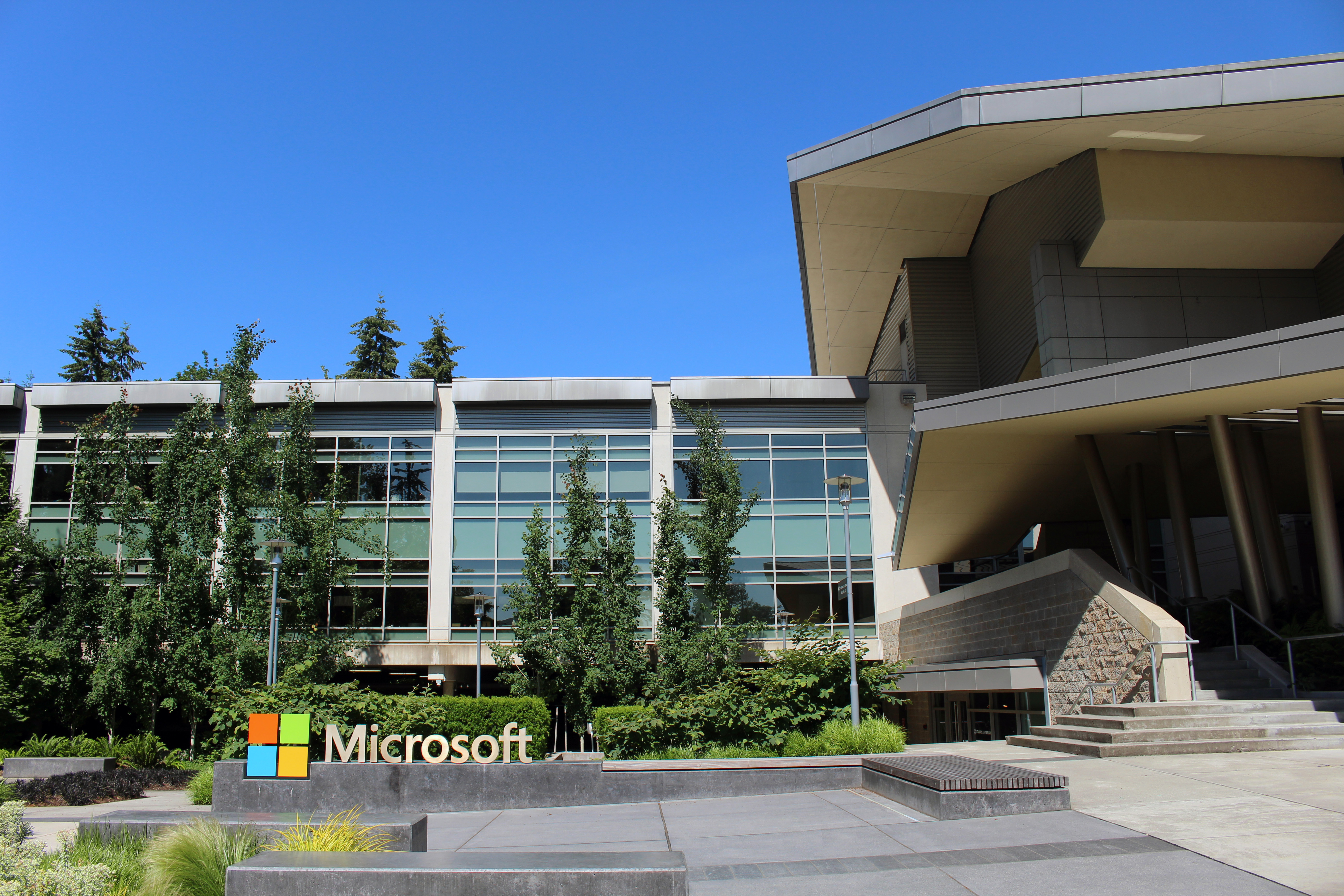 Building 92 at Microsoft Corporation headquarters in Redmond, Washington. Photographed by user Coolcaesar on 30 May 2016.